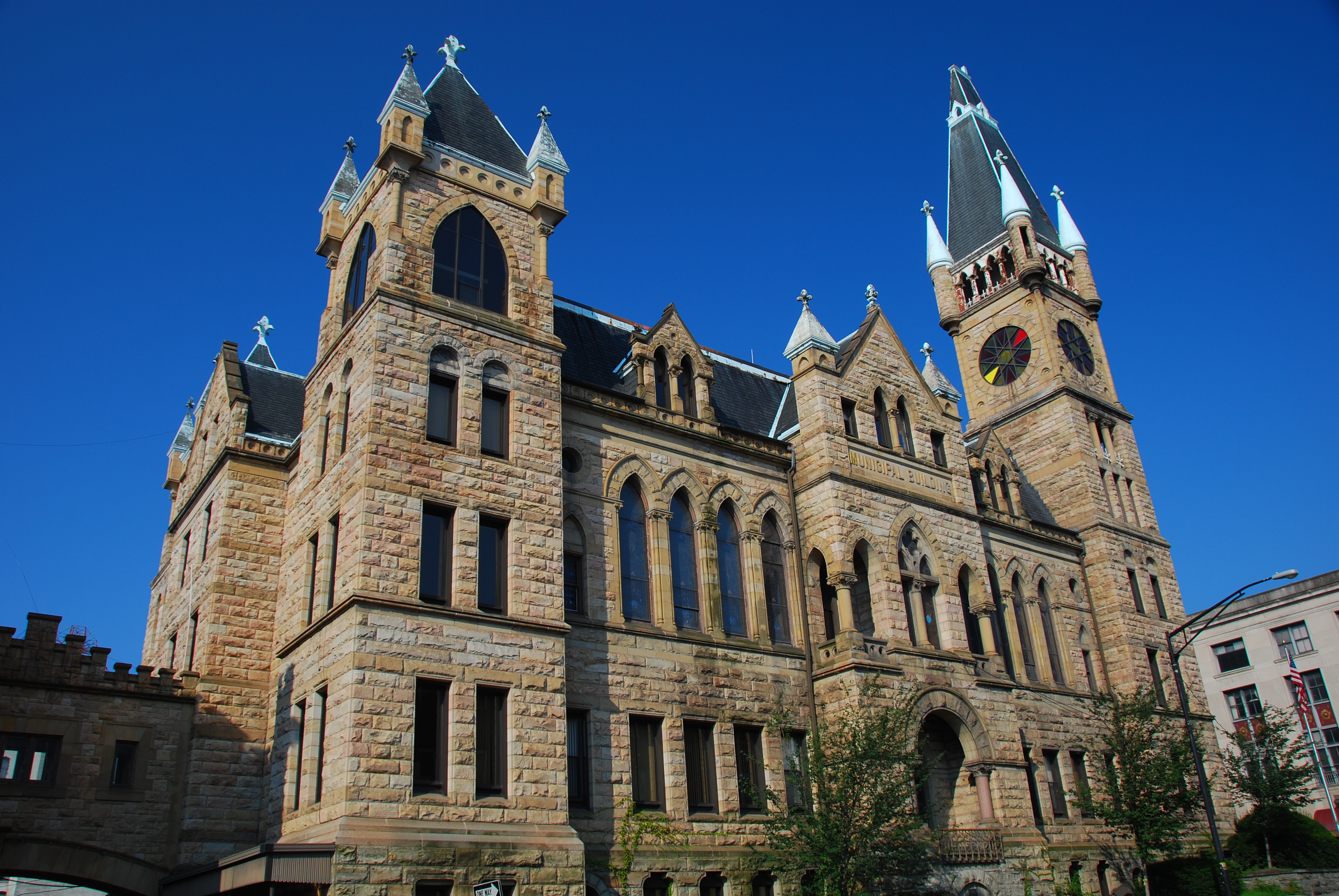 Scranton City Hall, downtown Scranton, PA